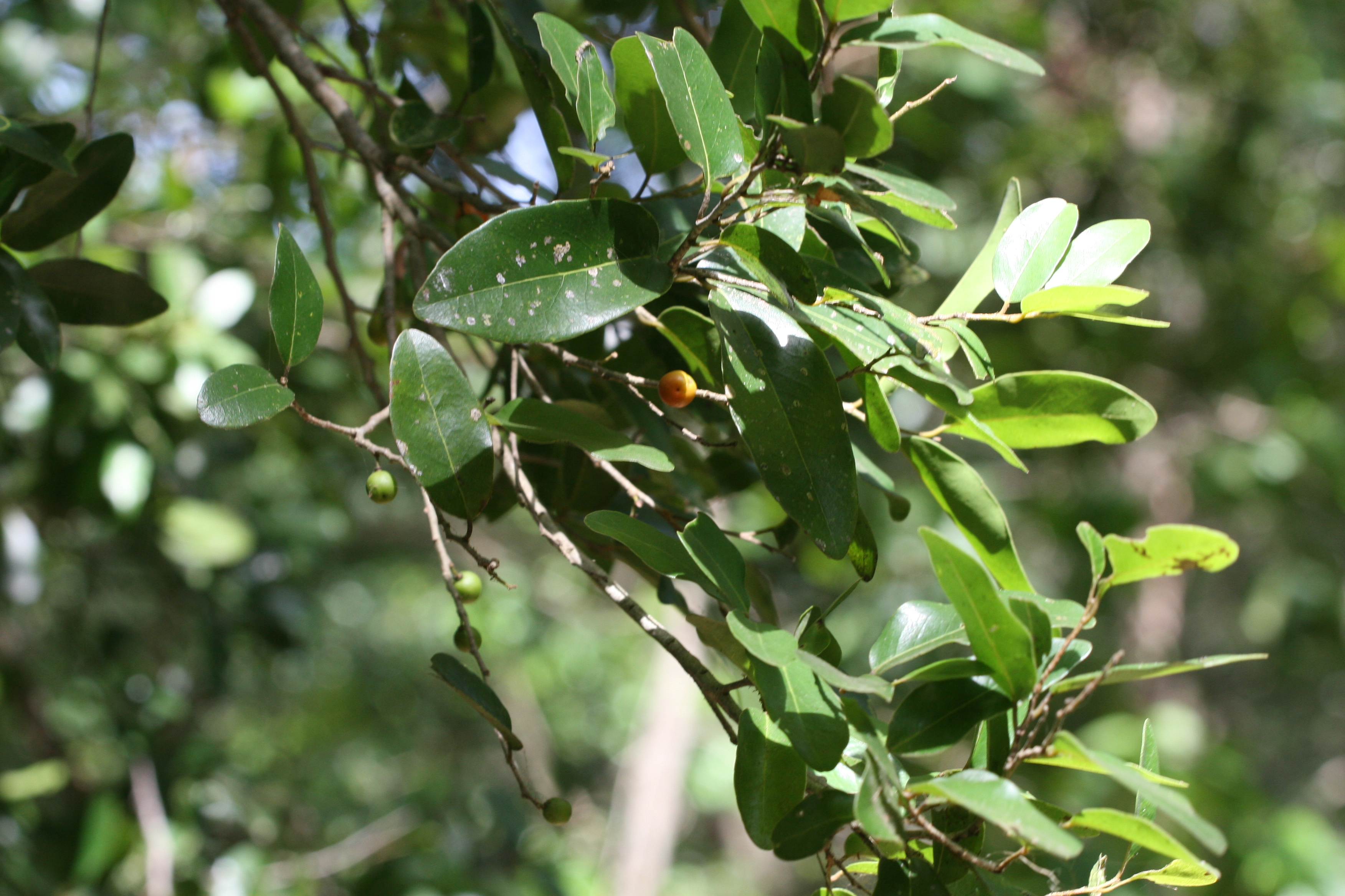 At Kandalama